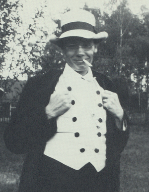 The Swedish-Danish sculptor Gerhard Henning (1880-1967) photographed on his honey moon in Torsby.